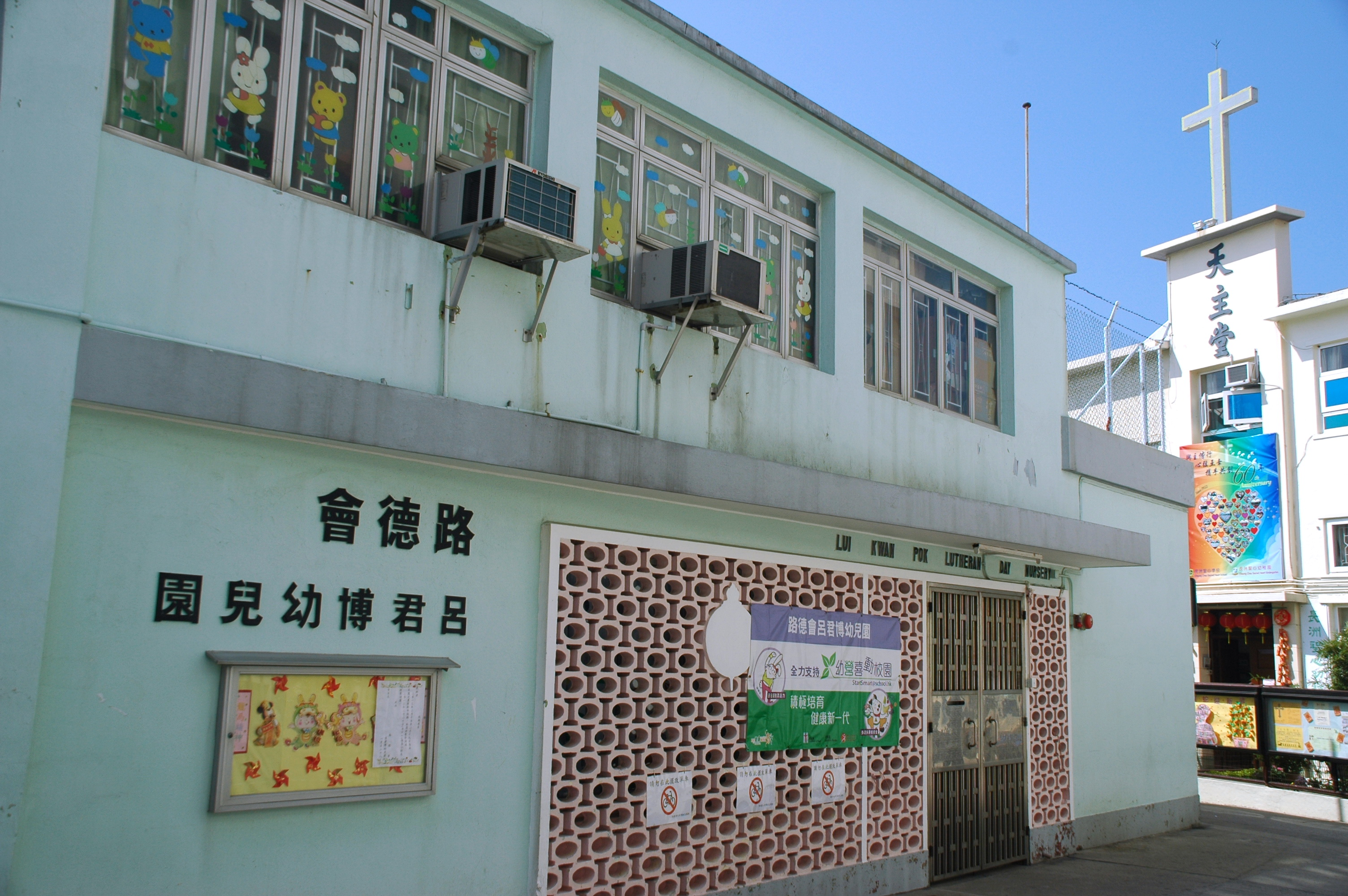 Lui Kwan Pok Lutheran Day Nursery, Cheung Chau, Hong Kong.